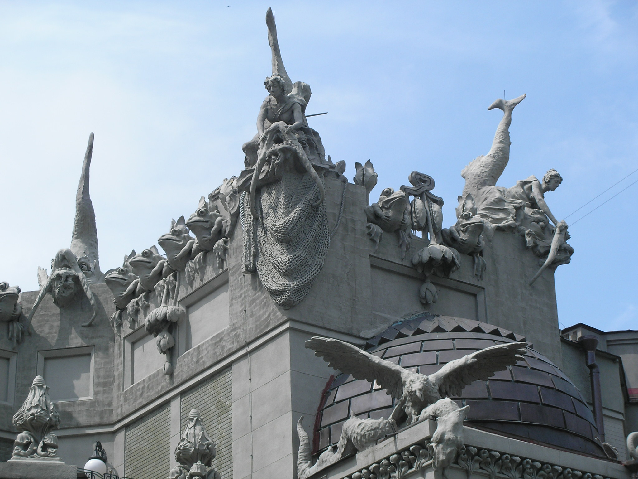 Architectural details on the House with Chimaeras, one of the official residences of the President of Ukraine in Kiev, the capital of Ukraine.